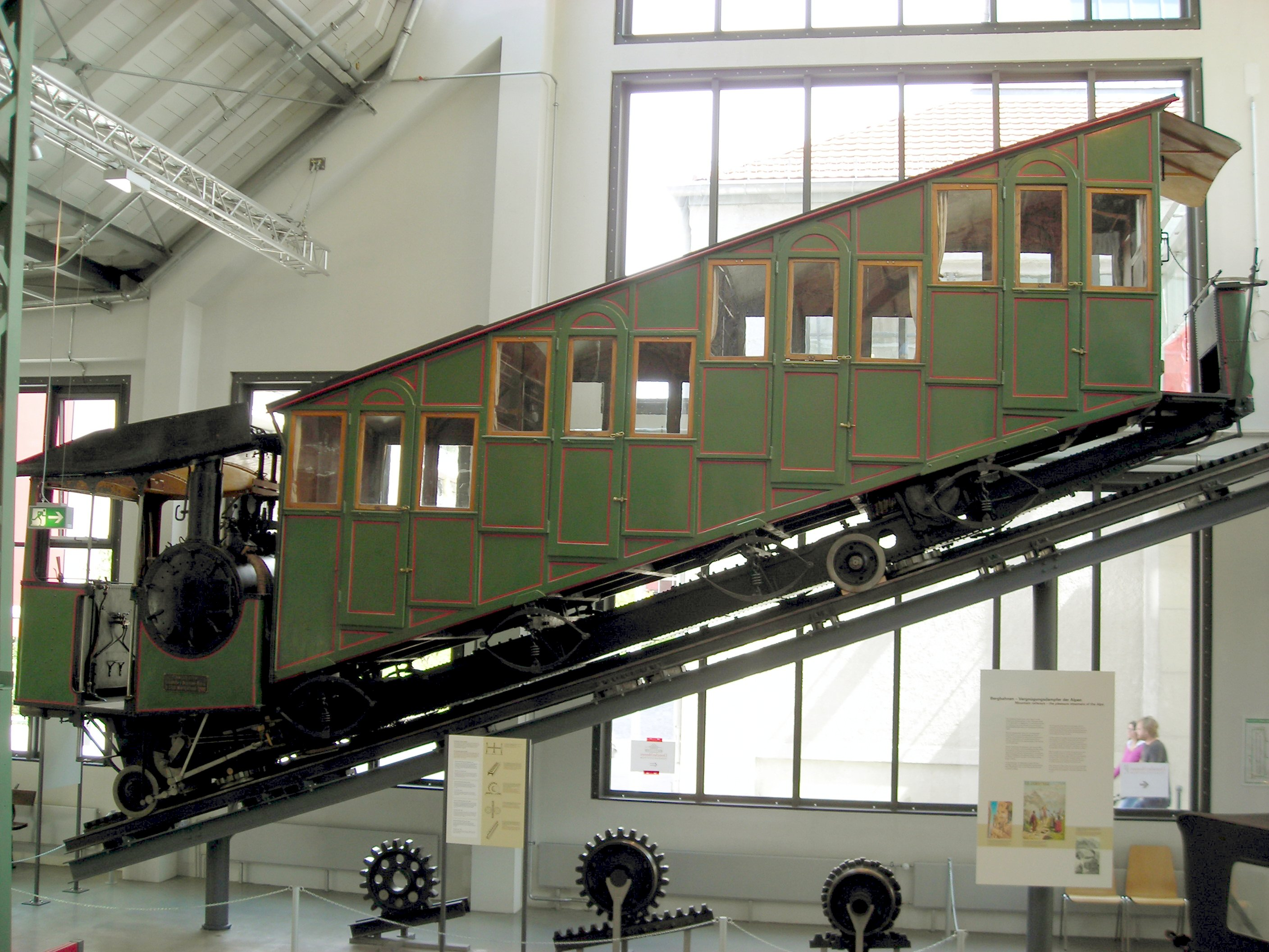 1900 Pilatus Railway, steam engine (Switzerland)